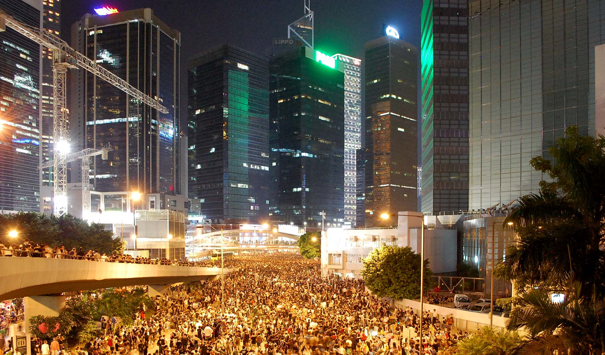 Protesters occupy Harcourt Road and associated flyovers at 9:00 pm on 29 September 2014.